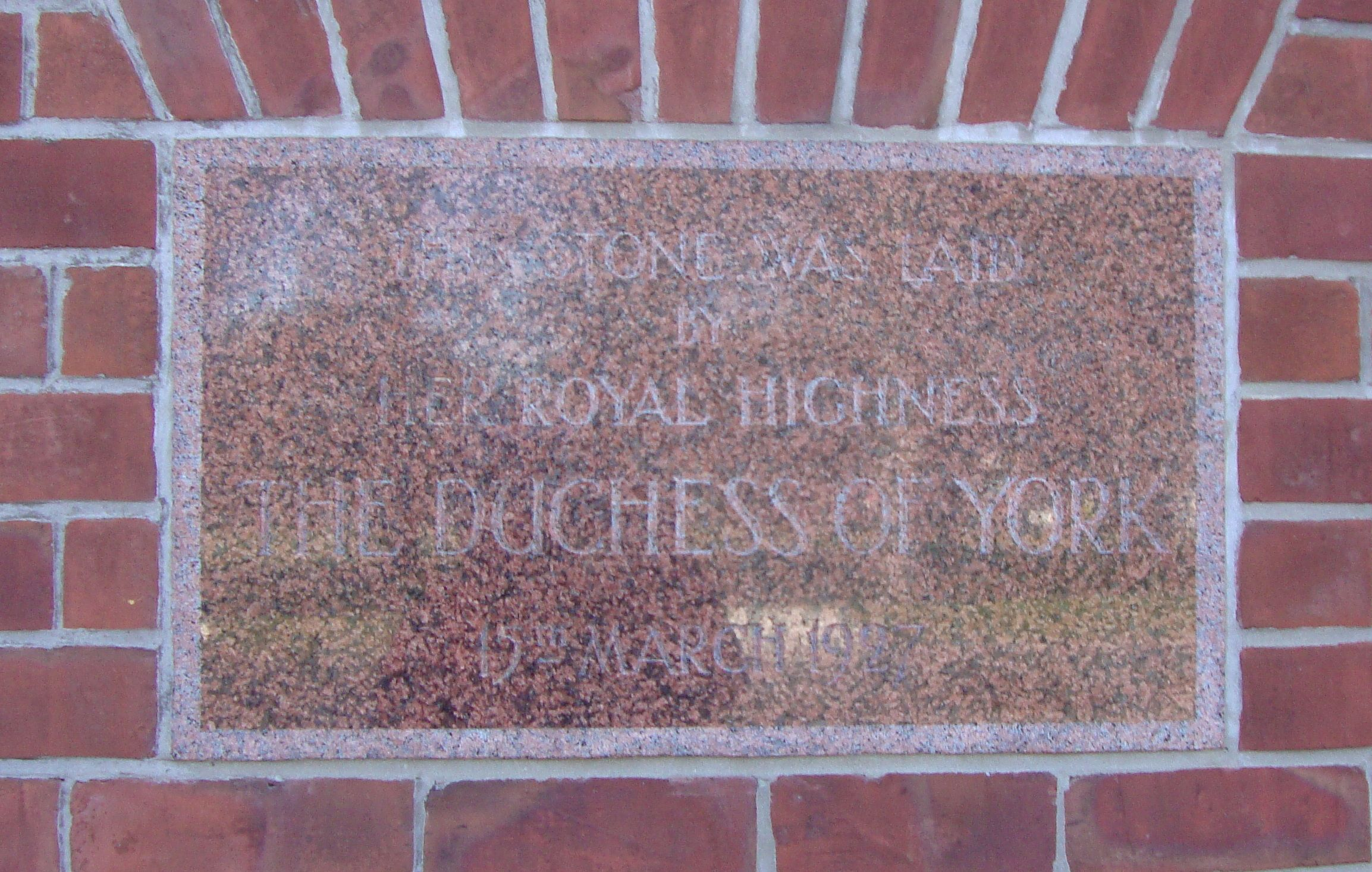 Foundation stone at the Nurses' Memorial Chapel. The Duchess of York (later to become the Queen Mother) is shown to have laid the stone on 15 March 1927, but she was ill on the day and her husband stood in for her.